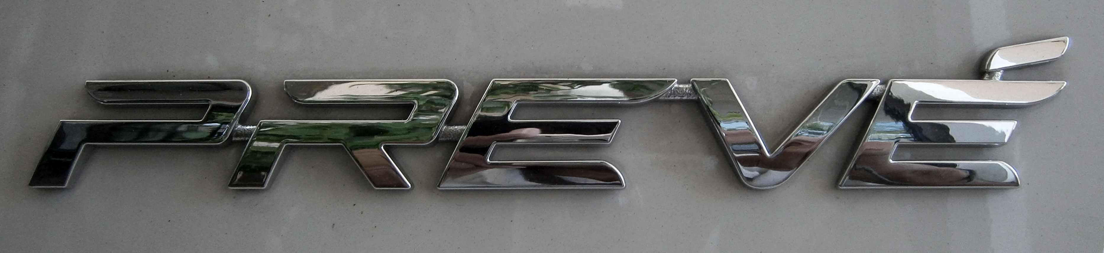 Proton Prevé nameplate badge.